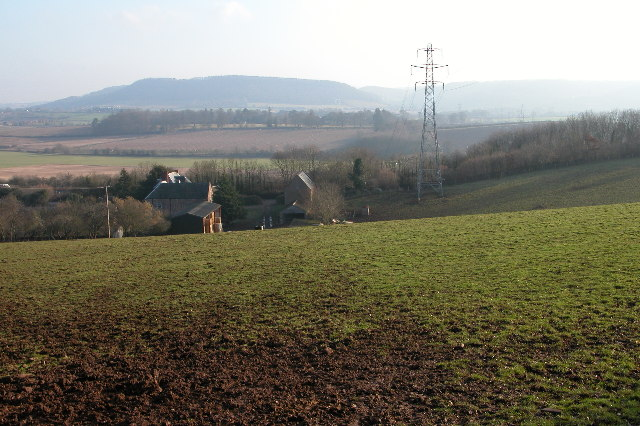 Ashe Farm, Pencraig. Out of sight behind the farm is the busy A40 dual carriageway between Ross and Monmouth.